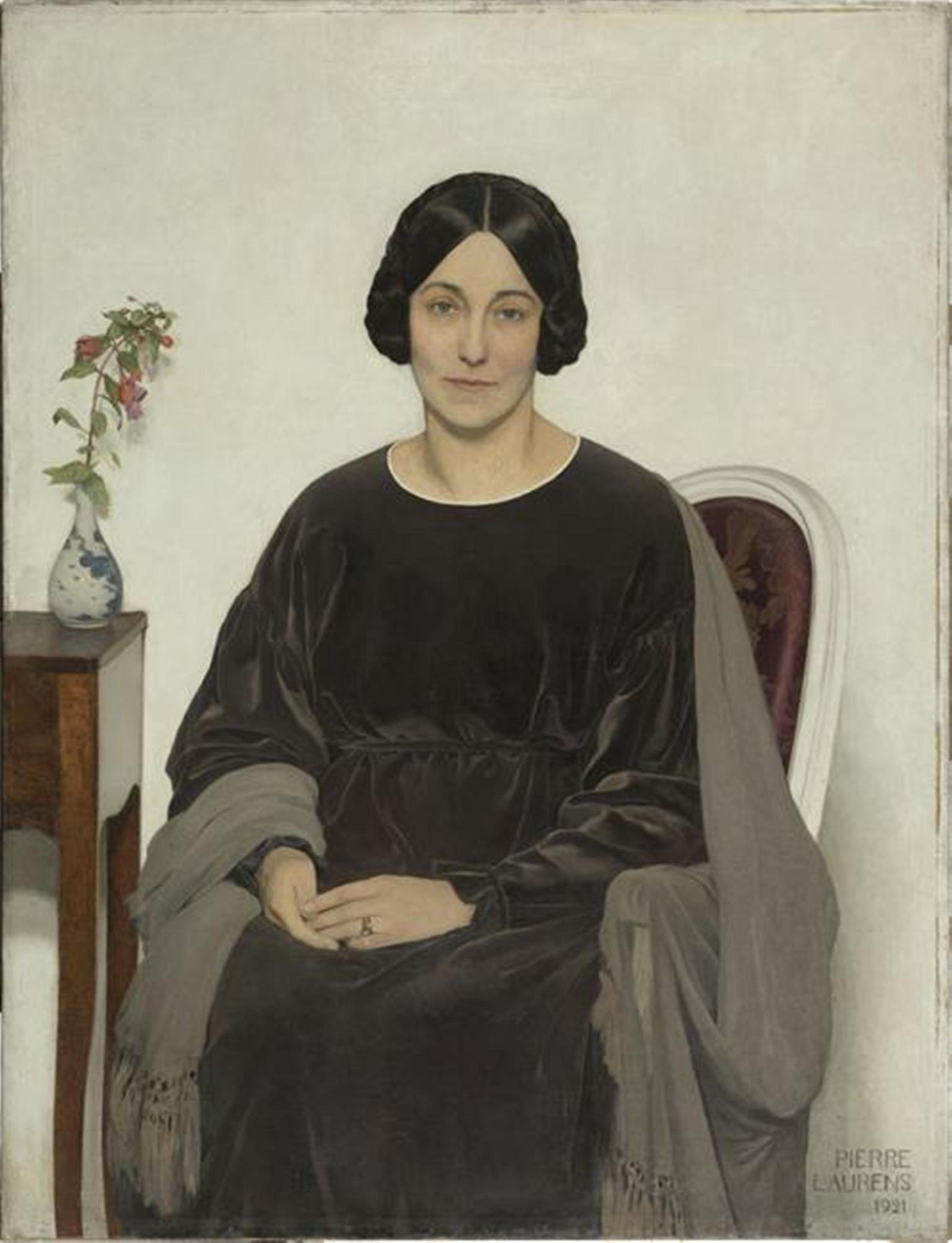 Yvonne Diéterle (1882-1974), daughter of the painter Georges Diéterle (1844-1937) and granddaughter of the painter, sculptor and decorator Jules Diéterle (1811-1889), is a French painter and sculptor. She is the wife of the painter Jean-Pierre Laurens (1875-1932).